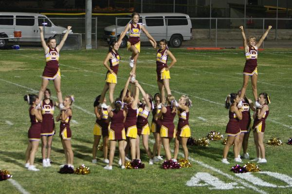 Aztec Cheerleaders during a football game.